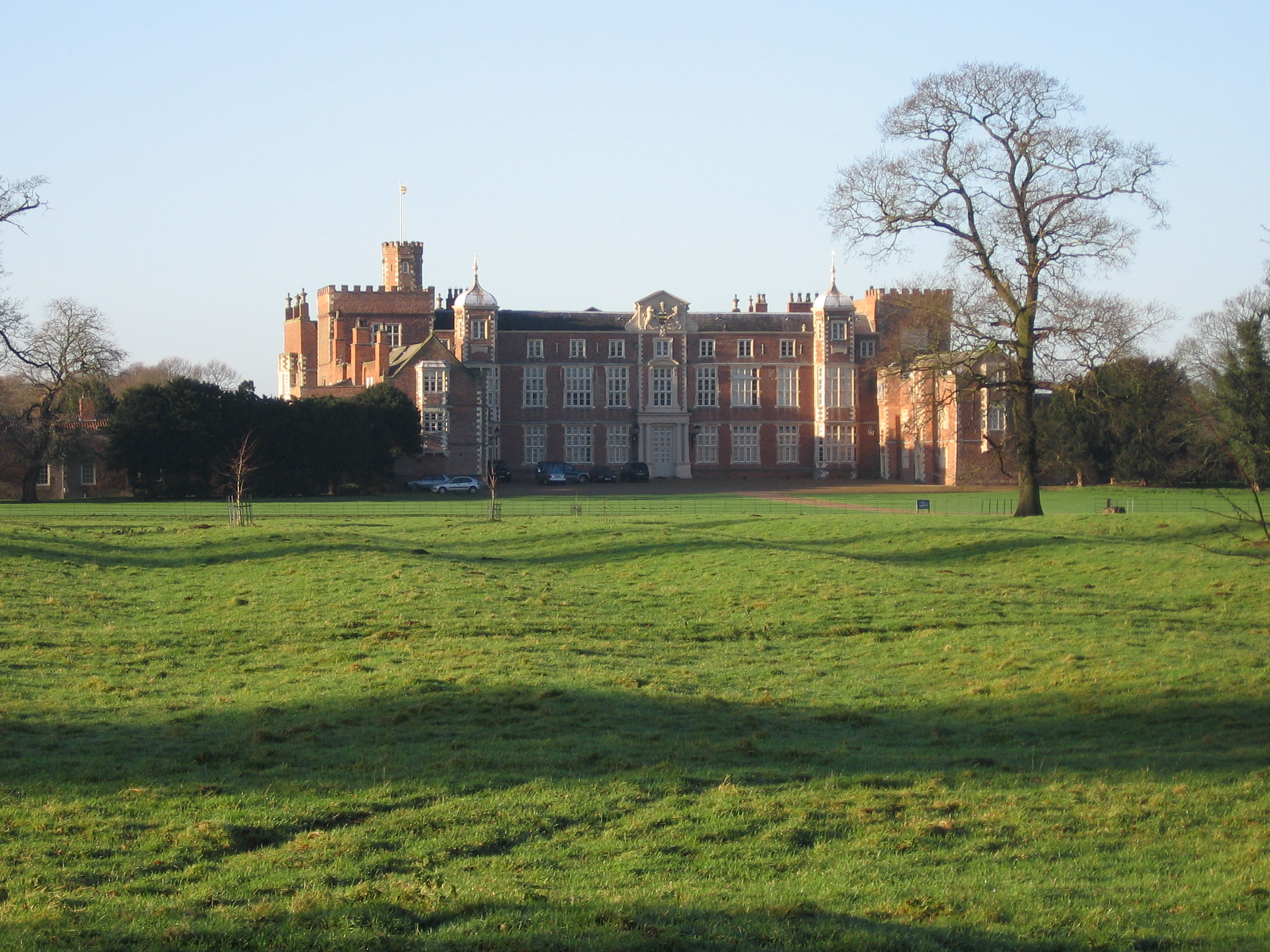 Burton Constable Hall, Burton Constable, East Riding of Yorkshire, England. Photo taken by me on 16 December 2006